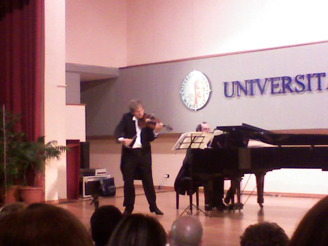 Uto Ughi's concert at Enna University